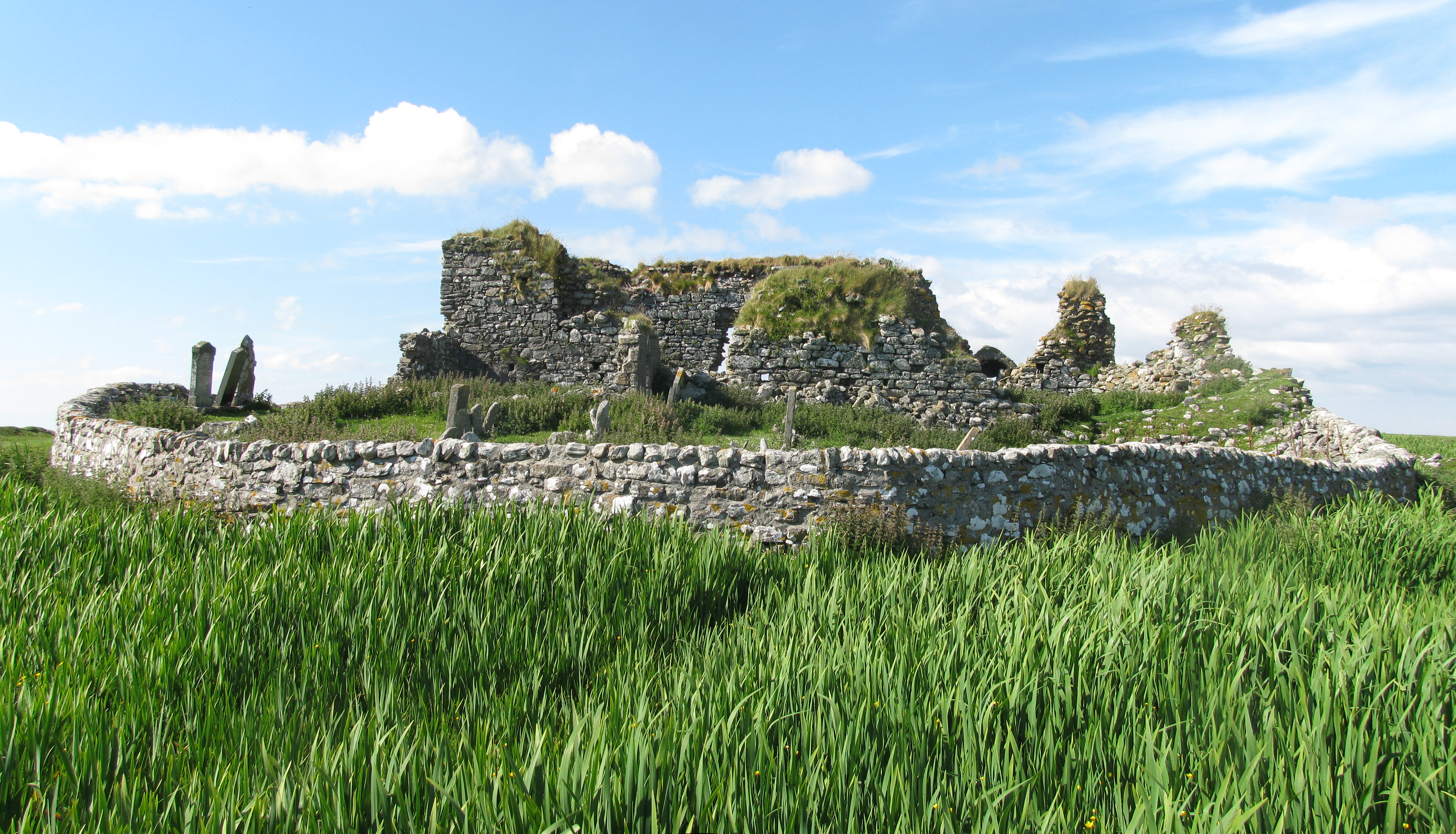 Teampull na Trionad (Trinity Church), Carinish, North Uist